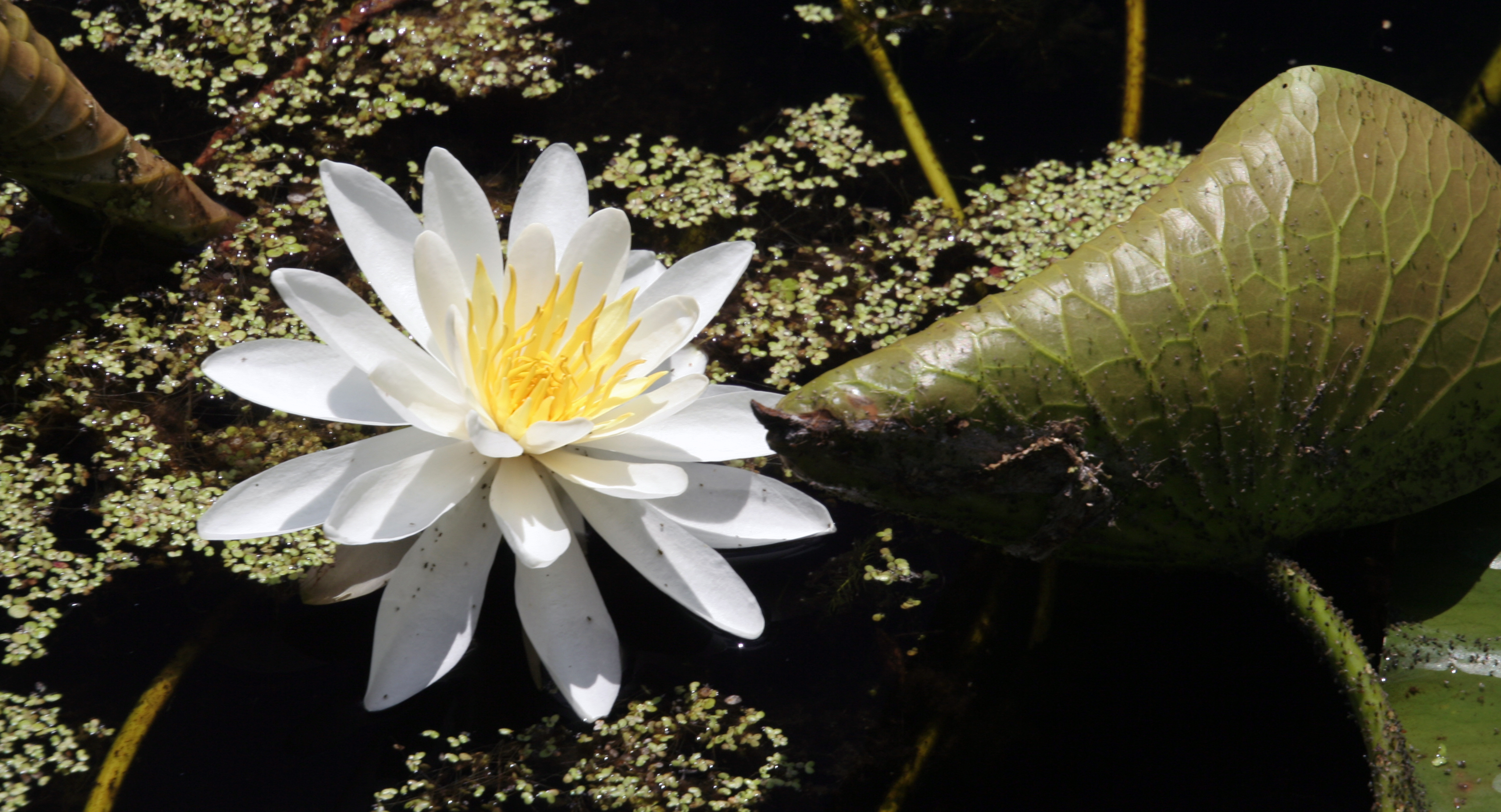 Nymphaea odorata subsp. tuberosa, Lake Phalen, Maplewood, MN